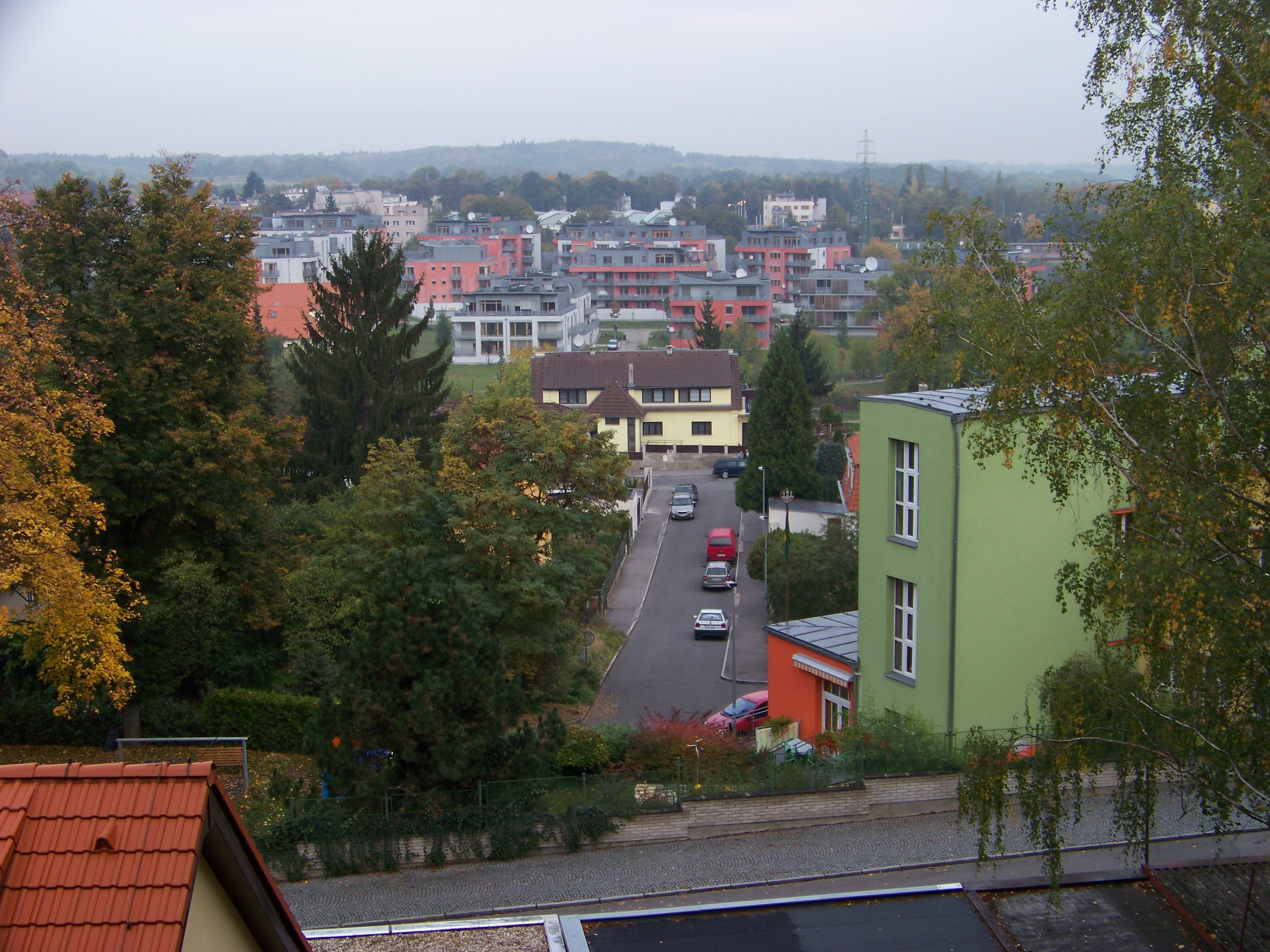 Prague-Liboc, the Czech Republic. Pod domky street. - OpenStreetMap(Info)